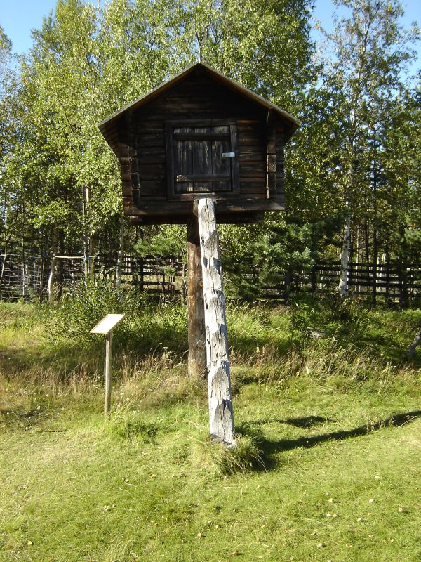 Small house on a pole with another pole as a ladder. Used for food storage. At the open air museum in Jukkasjärvi, Sweden.